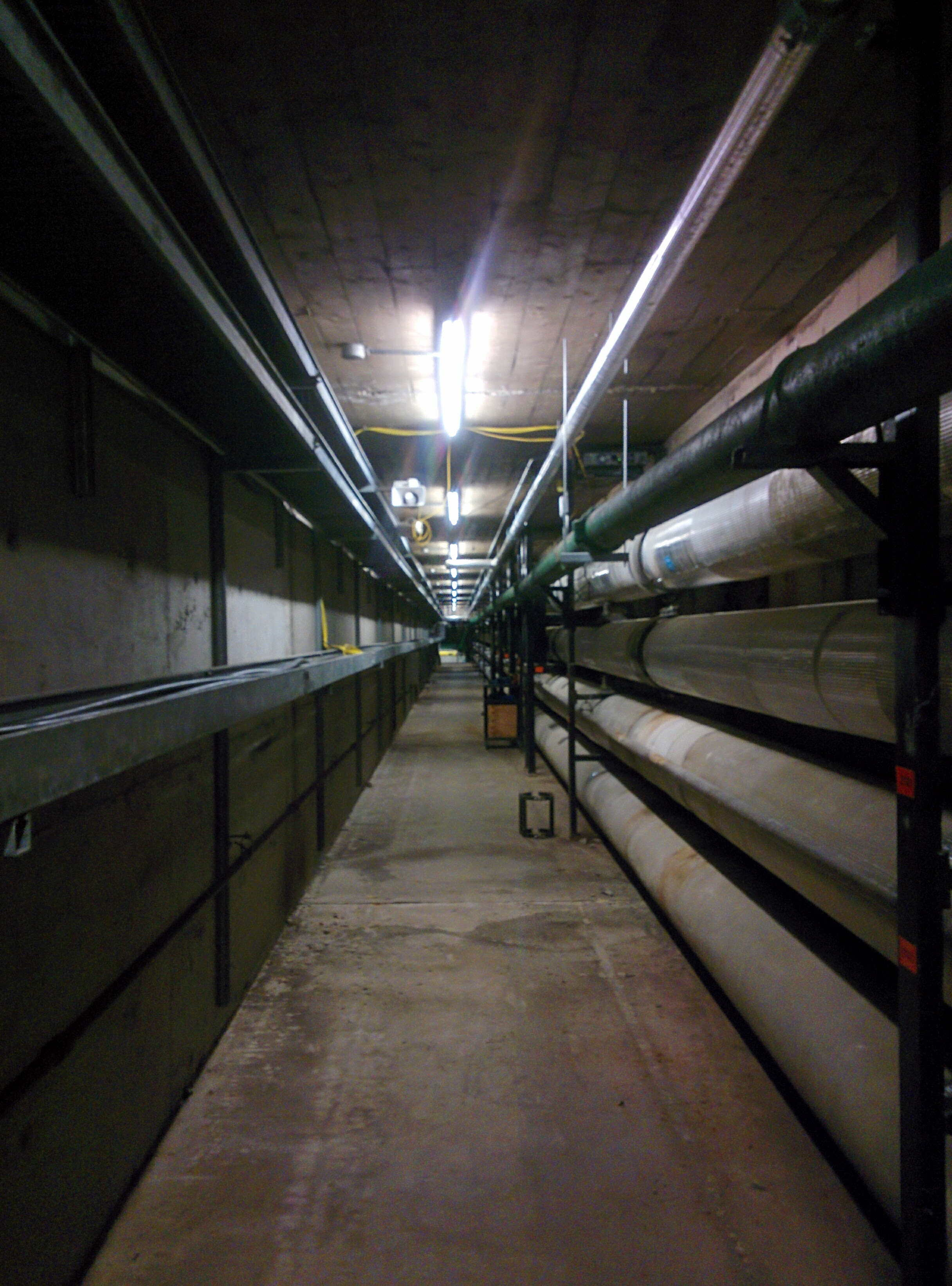 University of Calgary tunnel connecting Science A and Administration